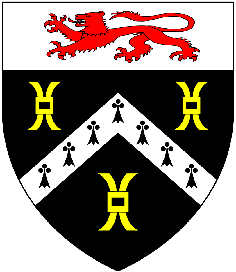 Arms of Turner of Halberton in Devon: Sable, a chevron ermine between three fers-de-moline or on a chief argent a lion passant gules (Vivian, Lt.Col. J.L., (Ed.) The Visitation of the County of Devon: Comprising the Heralds' Visitations of 1531, 1564 & 1620, Exeter, 1895, p.741). Compare arms of the Turnour family, Earls of Winterton: Ermines, on a cross quarterly pierced argent four fers-de-molines sable. A fer-de-moline or millrind is the central element of a mill stone, which turns to grind flour. Hence canting arms. Also arms of Turner Baronets of Warham, Norfolk (created 1727) (Burke, General Armory, 1884[1])